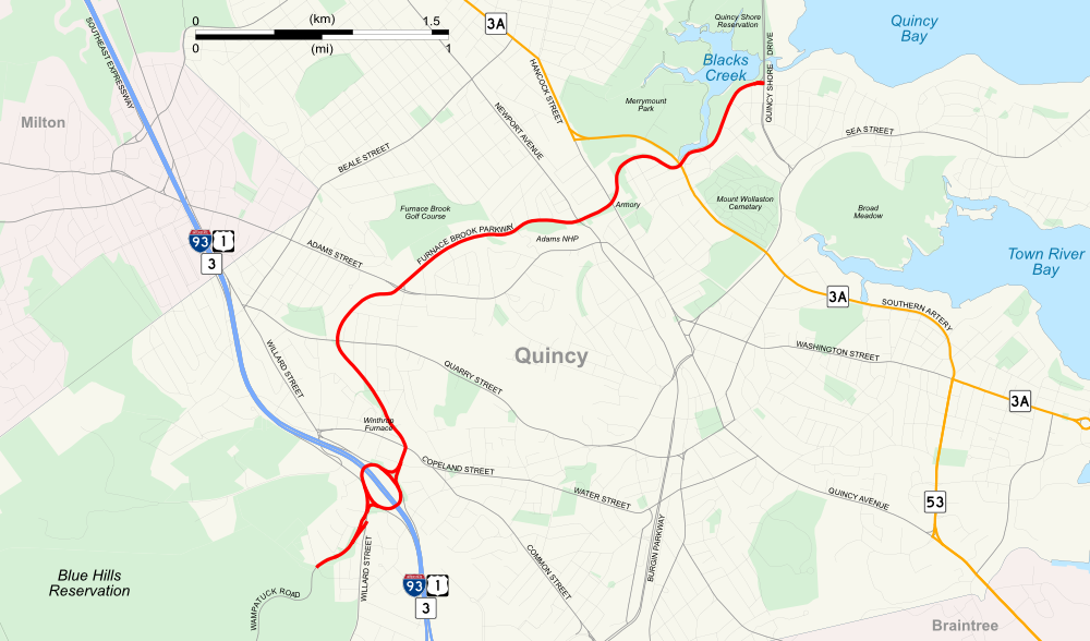 Map showing Furnace Brook Parkway, a historic parkway in Quincy, Massachusetts, United States highlighting major local streets and highways, with Furnace Brook Parkway highlighted in red